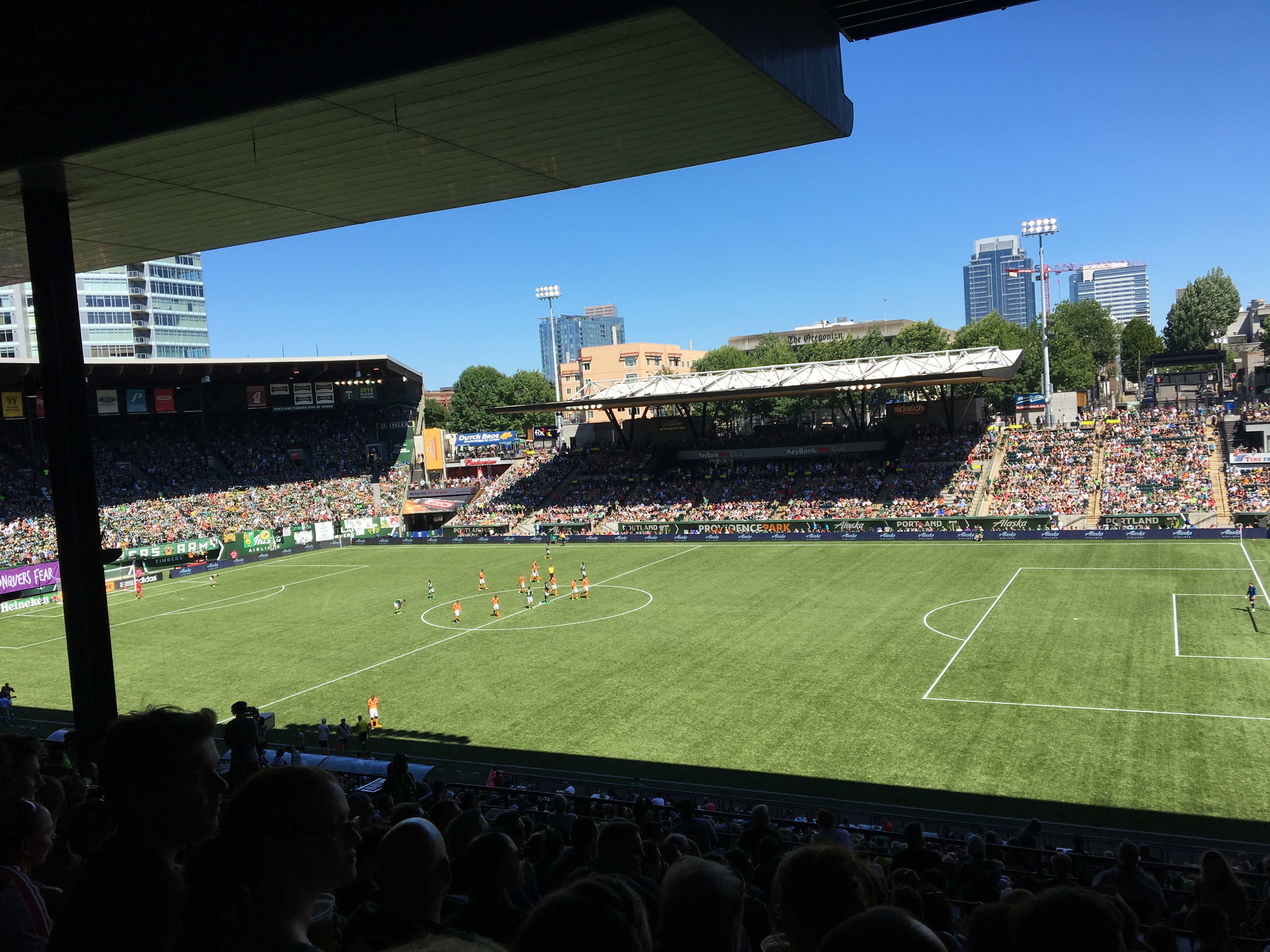 Portland Timbers playing Houston Dynamo at Providence Park